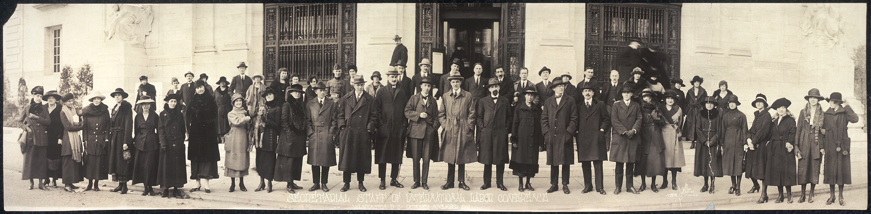 Secretarial Staff of International Labor Conference, Washington, D.C., October-November 1919. Image includes: Ernest Greenwood, American Delegate; Harold B. Butler, Secretary-General of ILC; International Labour Conference, Washington, D.C., October-November 1919, secretarial staff in front of the Pan American Building.